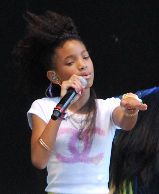 Willow Smith at the White House, Easter Egg Roll in April 2011.